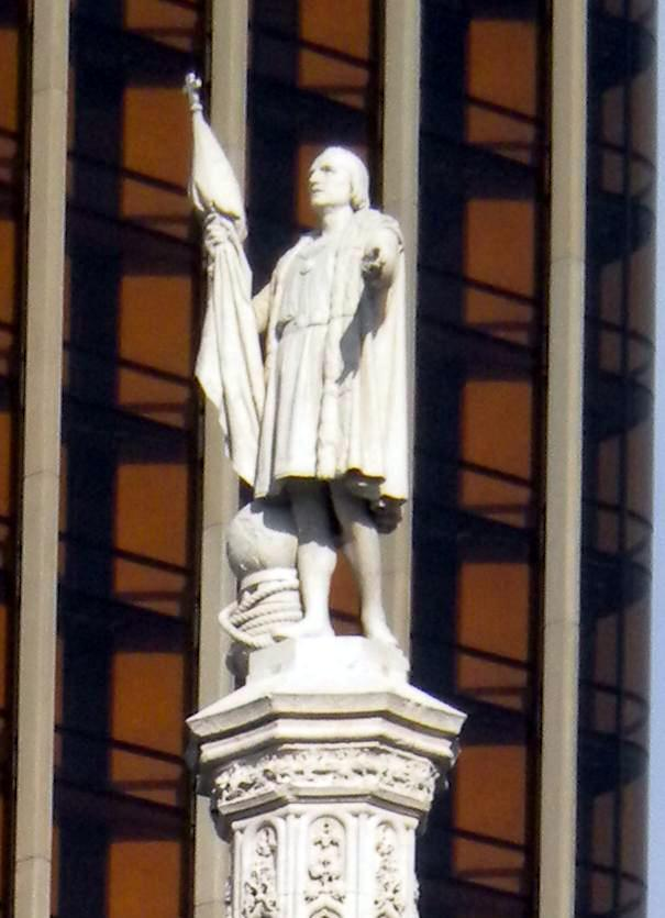 Christopher Columbus statue on his monument at Plaza de Colón, as released by image creator Ristesson;Place: Madrid, Spain